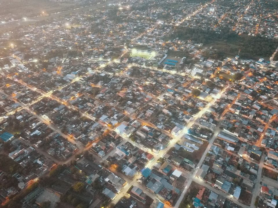 The municipality of Puerto Asís is located at a point of reference in the bajo Putumayo